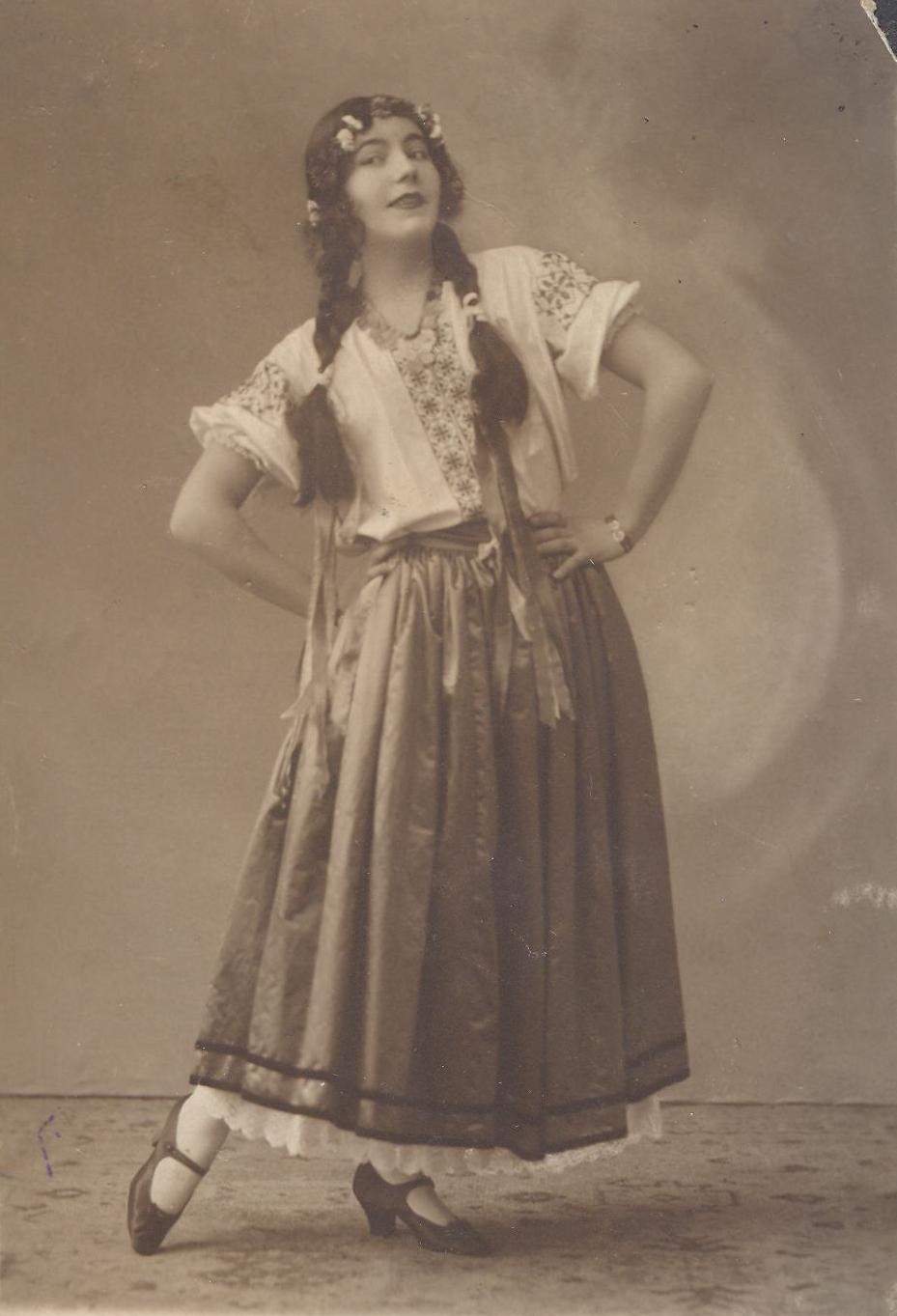 Nadezhda Vinarova, 1936.